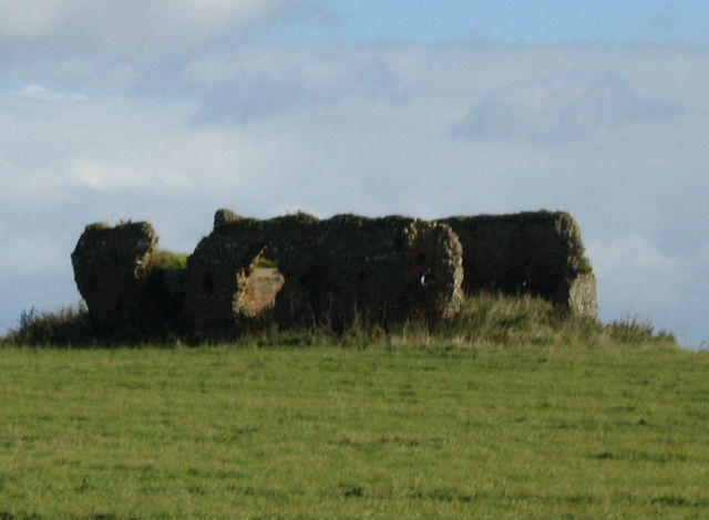 Ruined Chapel on Minsmere Level.